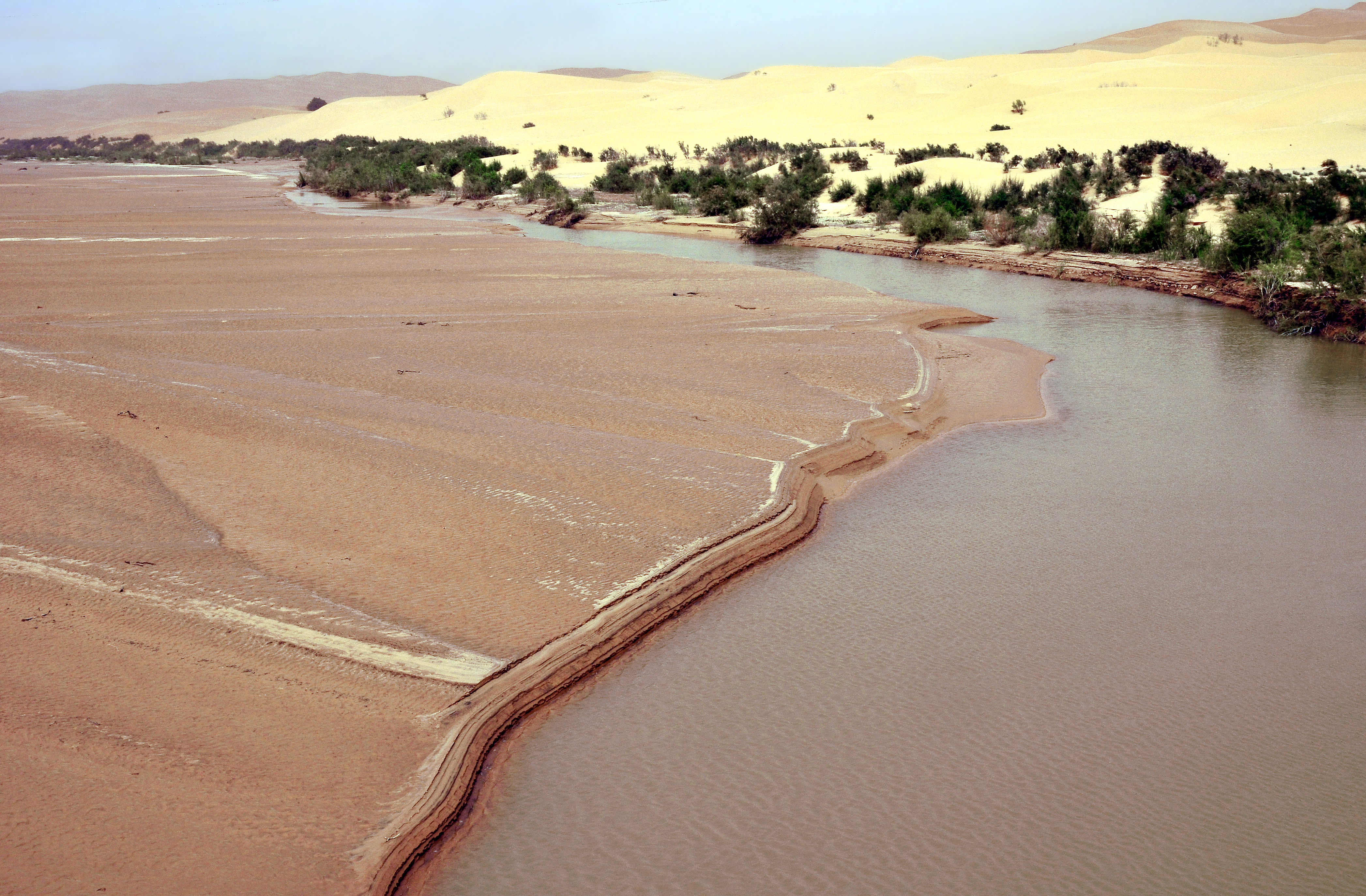 The wadi Sawra at Foum el-Erg, Beni Abbes, Bechar, Algeria